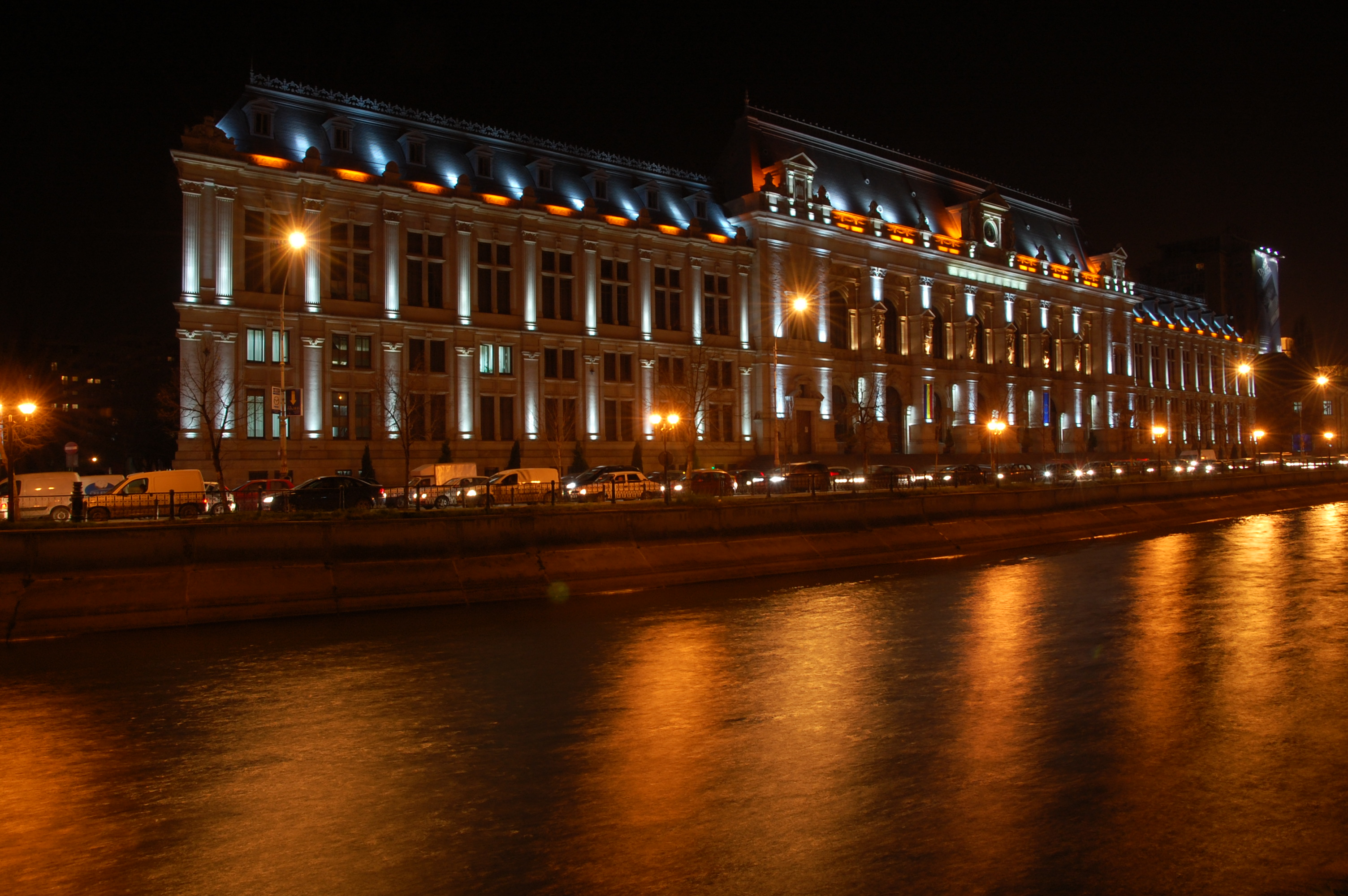 The Palace of Justice from Bucharest viewed across the Damboviţa river.